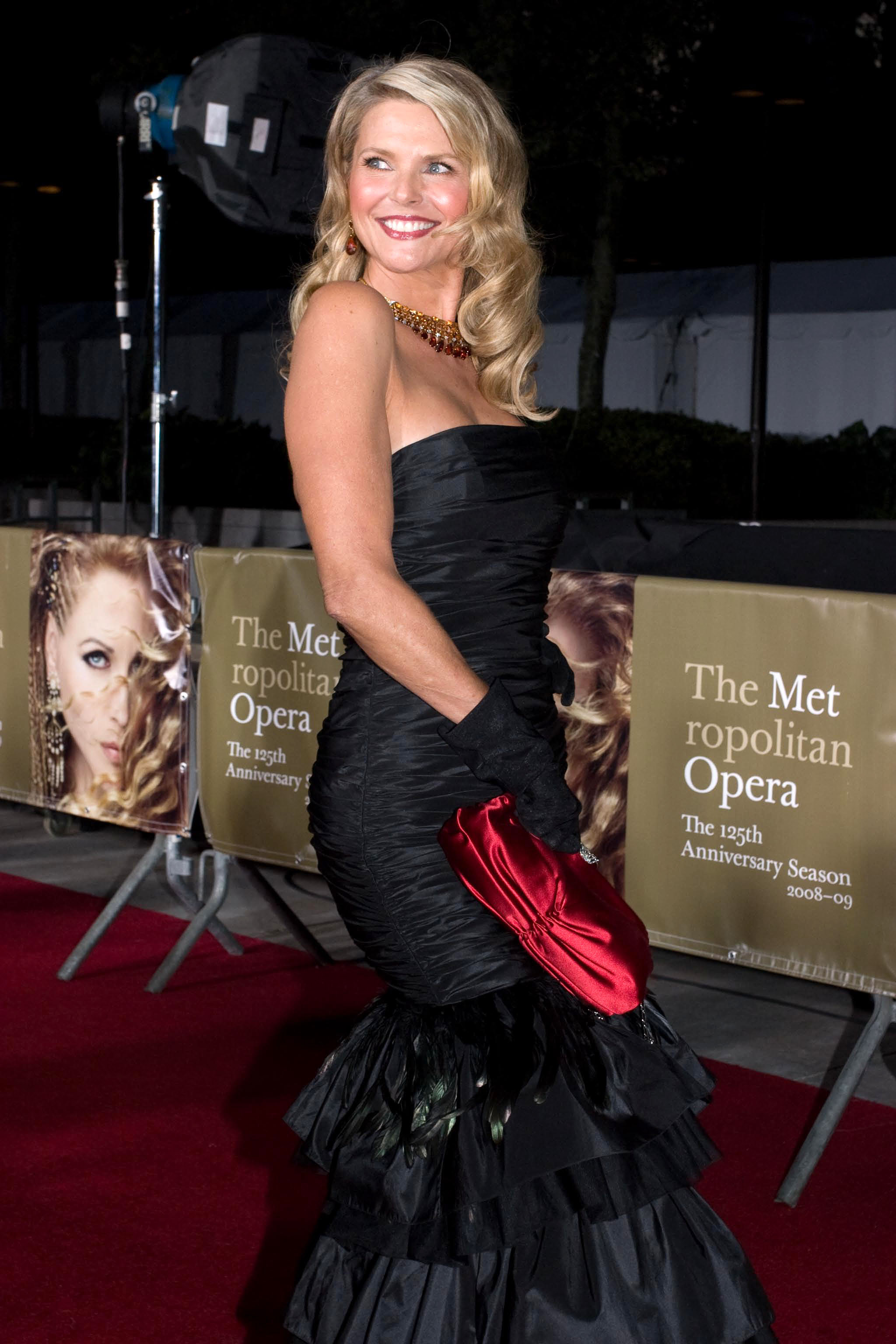 Christie Brinkley at the Metropolitan Opera opening in 2008. © Rubenstein, photographer Martyna Borkowski